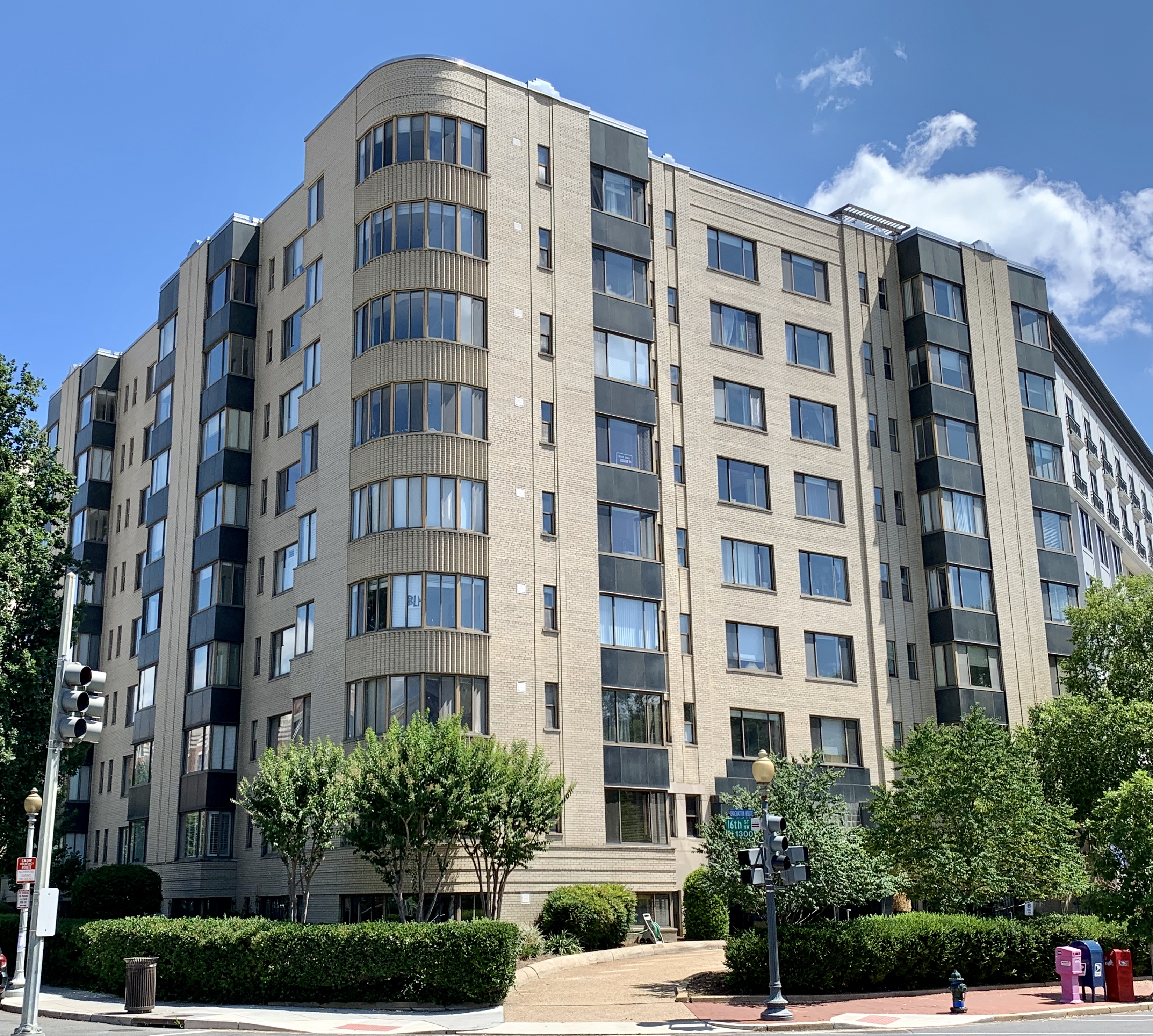 The General Scott located at 1 Scott Circle NW in Washington, D.C. Designed by Robert O. Scholz, the Art Deco building was completed in 1941. The General Scott is a contributing property to the Sixteenth Street Historic District.